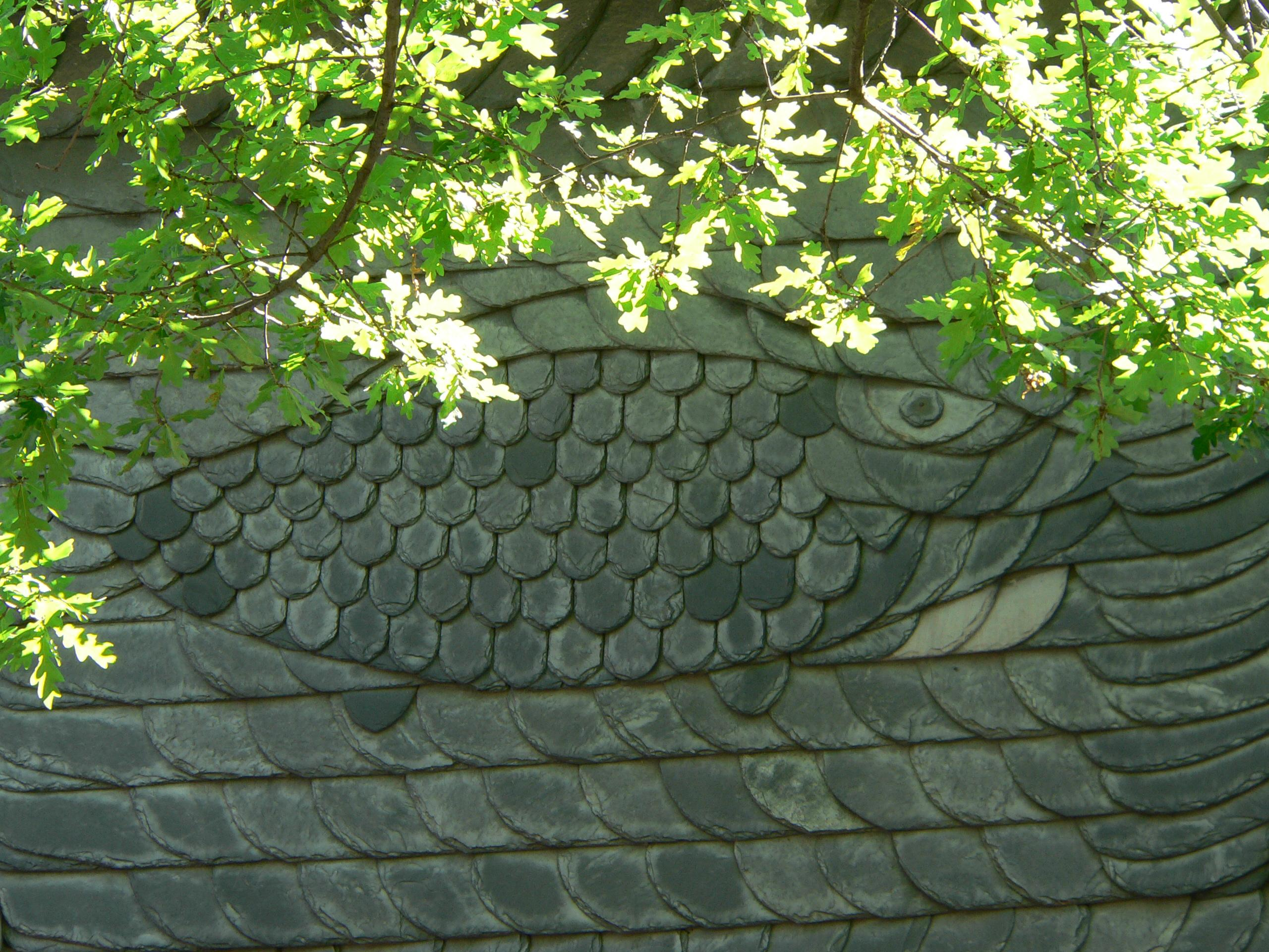 Former inn „Der Karpfen“ („The Carp“) at the Schloßplatz in Frankfurt-Höchst, carp pattern in the roofing shingles